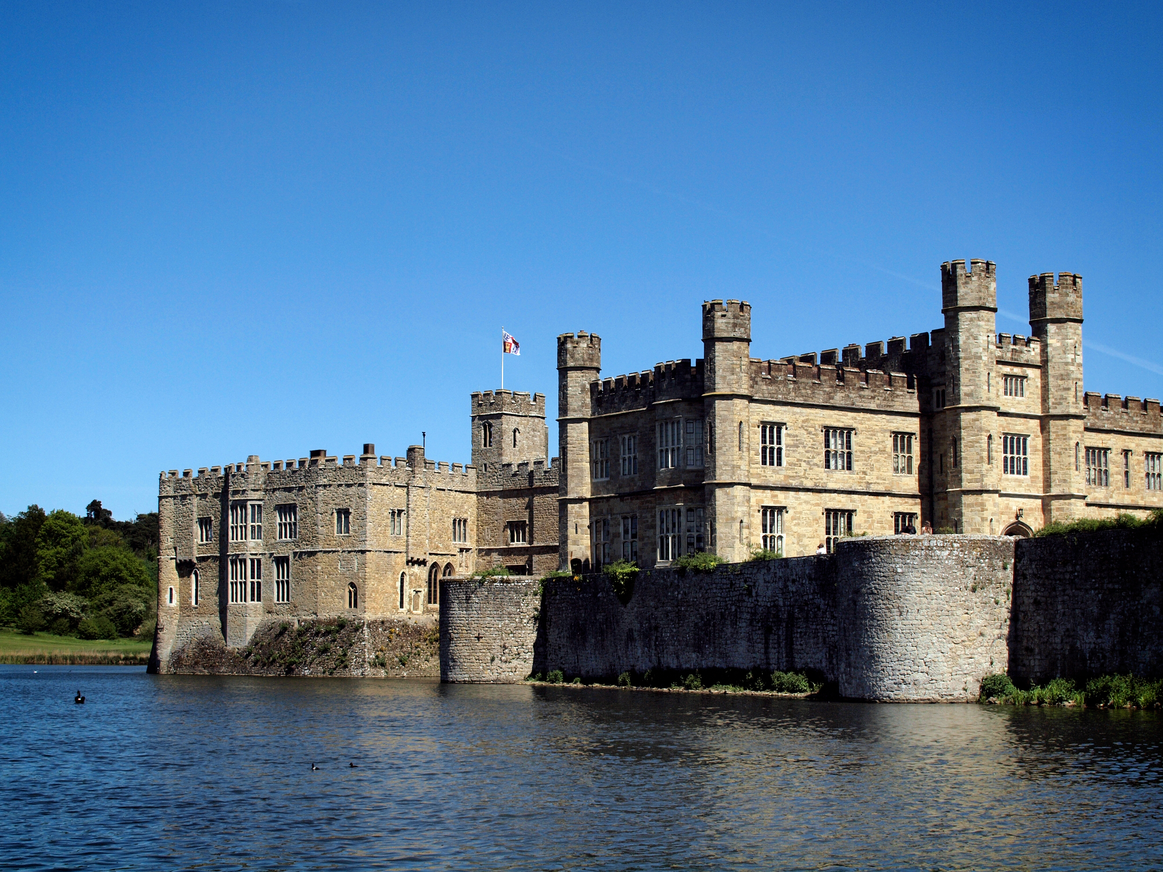 Leeds Castle, Kent, England.